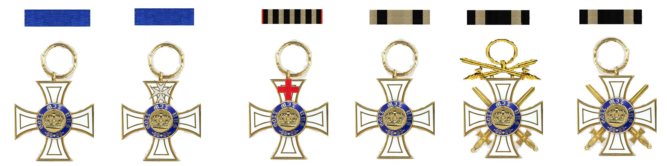 Four crosses of the Order of the Crown of Prussia with the ribbons